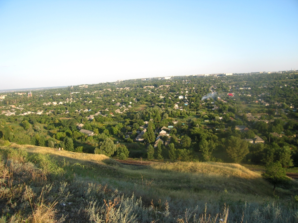 Lisichansk